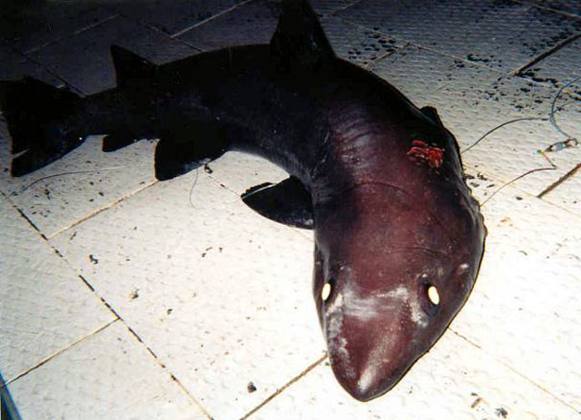 Bigeye sand tiger shark (Odontaspis noronhai), caught off Hawaii.